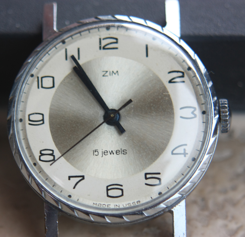 Soviet watch ZiM of manufactured about 1980